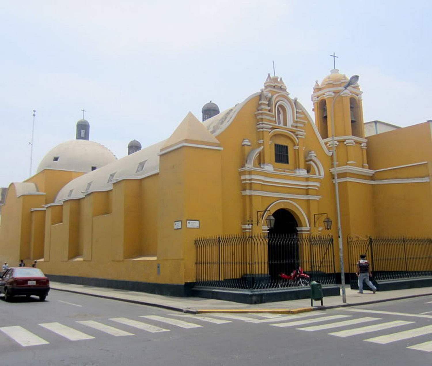 Iglesia San Lorenzo